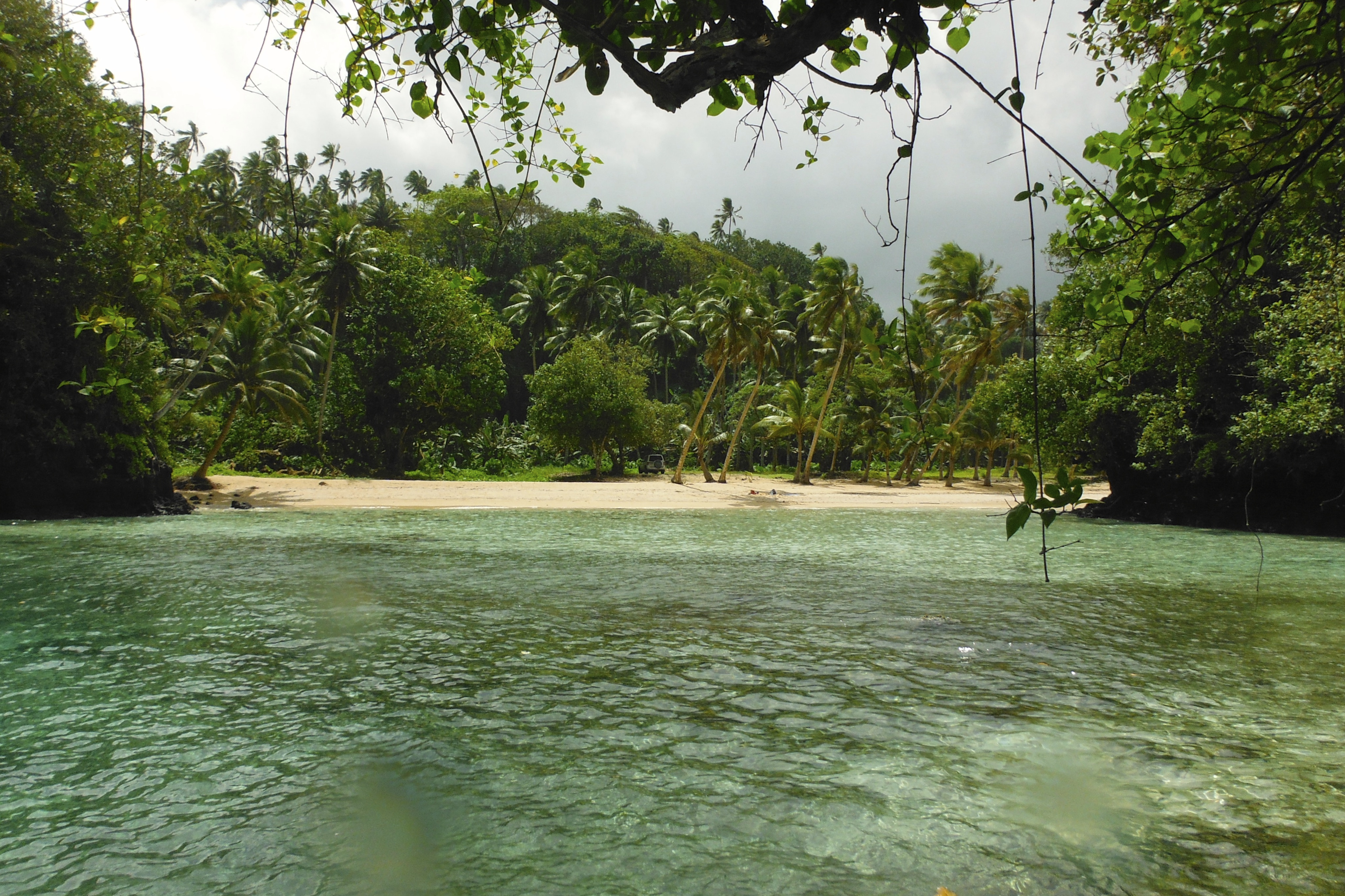 A picture of Vavau Beach in Samoa taken from the water.